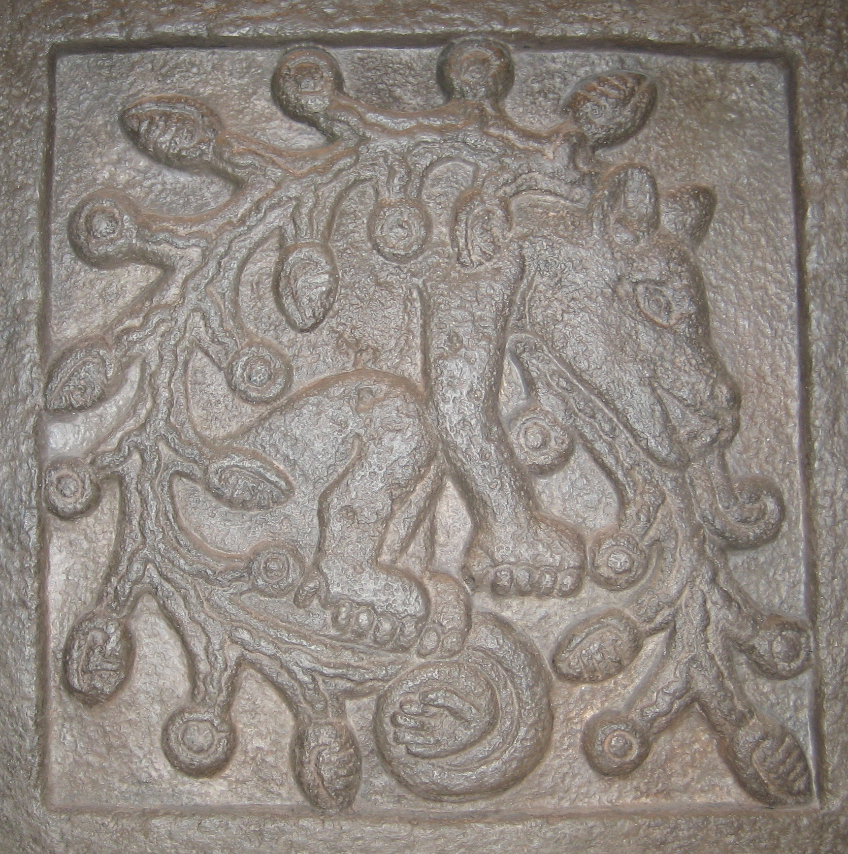 Name glyph of Aztec emperor Ahuitzotl. 19th century replica cast in Peabody Museum collection, Harvard University, Cambridge, Massachusetts, USA; original stone plaque in temple at Tepoztlan, south of Mexico City, from about 1500.